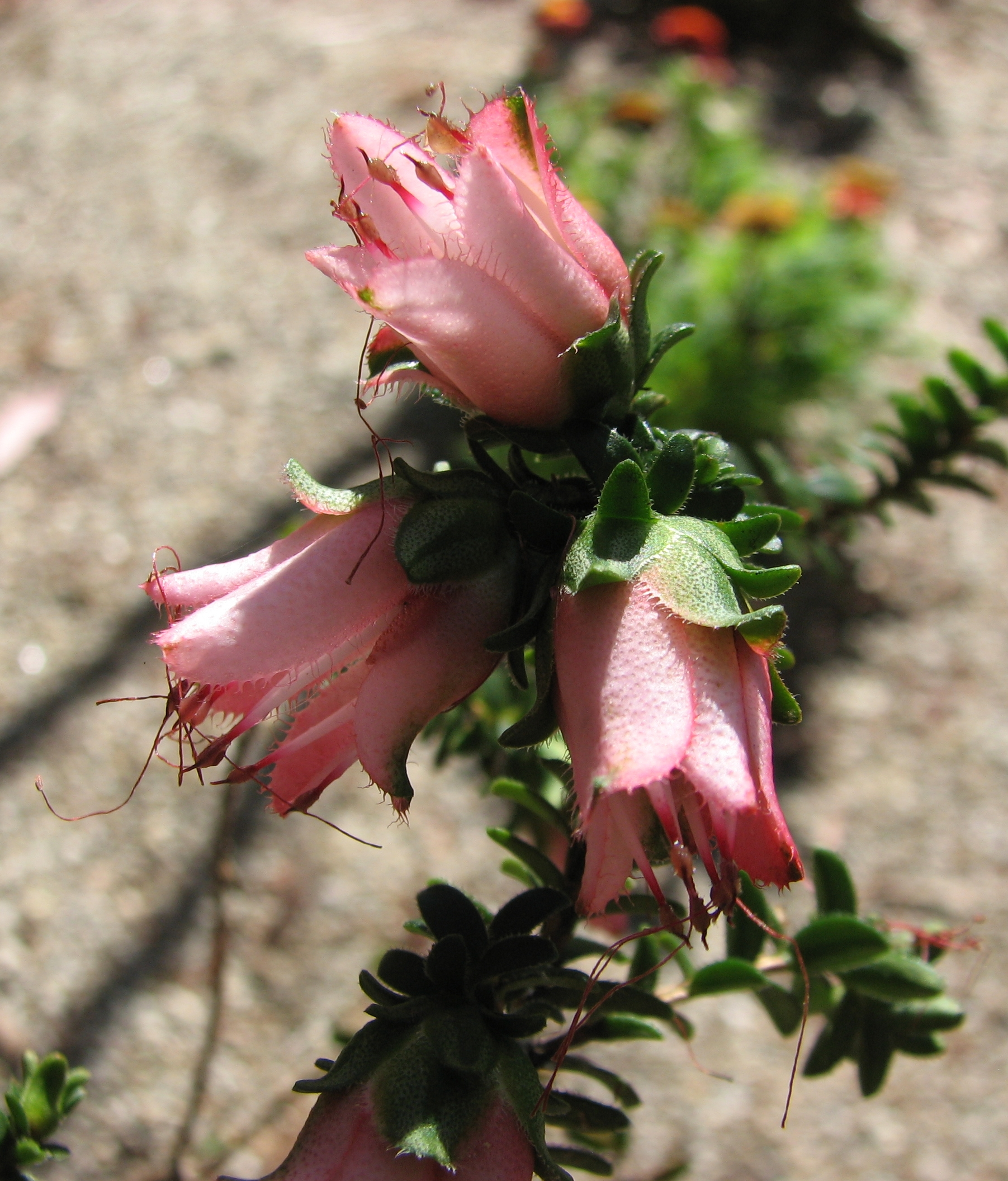 Darwinia squarrosa (cultivated, grafted, labelled) , Maranoa Gardens, Balwyn, Victoria, Australia